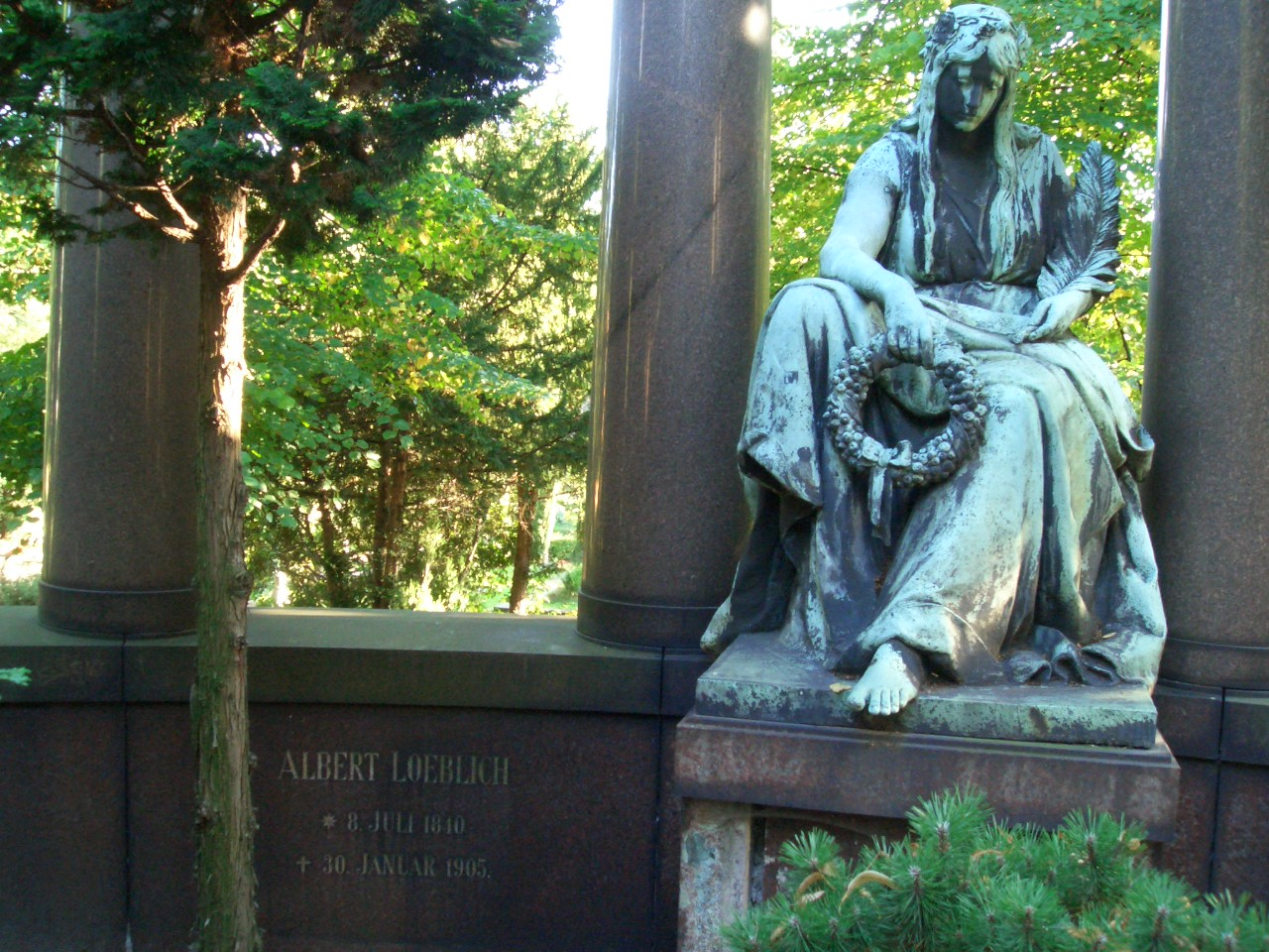 Loeblich mausoleum with mourning woman by sculptor Robert Baerwald at Luisenstädtischer Friedhof in Berlin